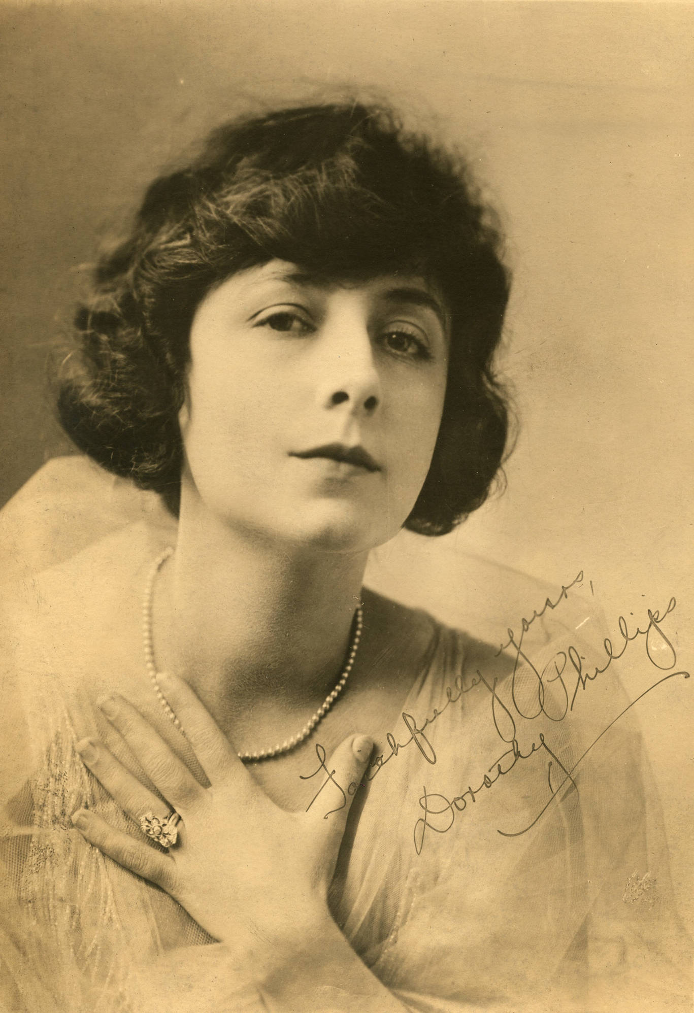 Dorothy Phillips, silent film actress Subjects: actresses